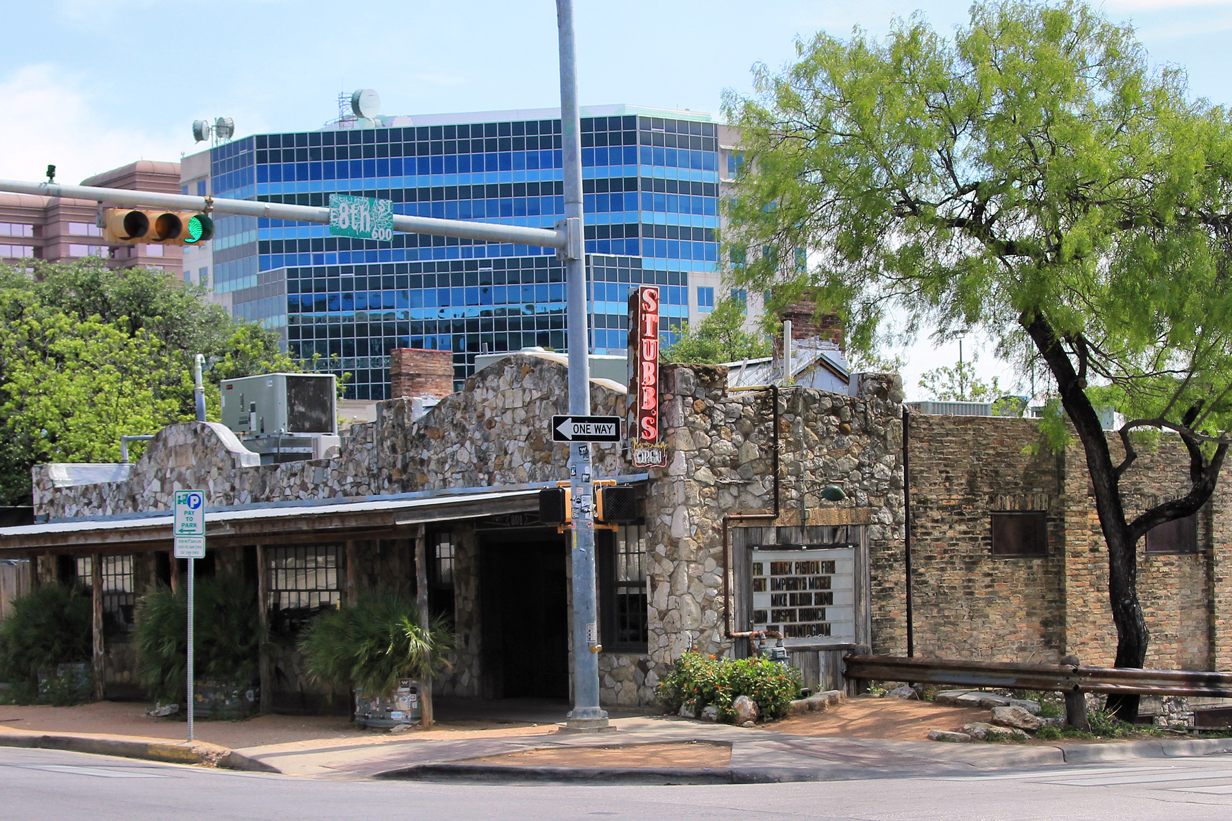 Stubb's Bar-B-Q at 801 Red River, Austin, Texas, United States is a popular restaurant and nightclub.